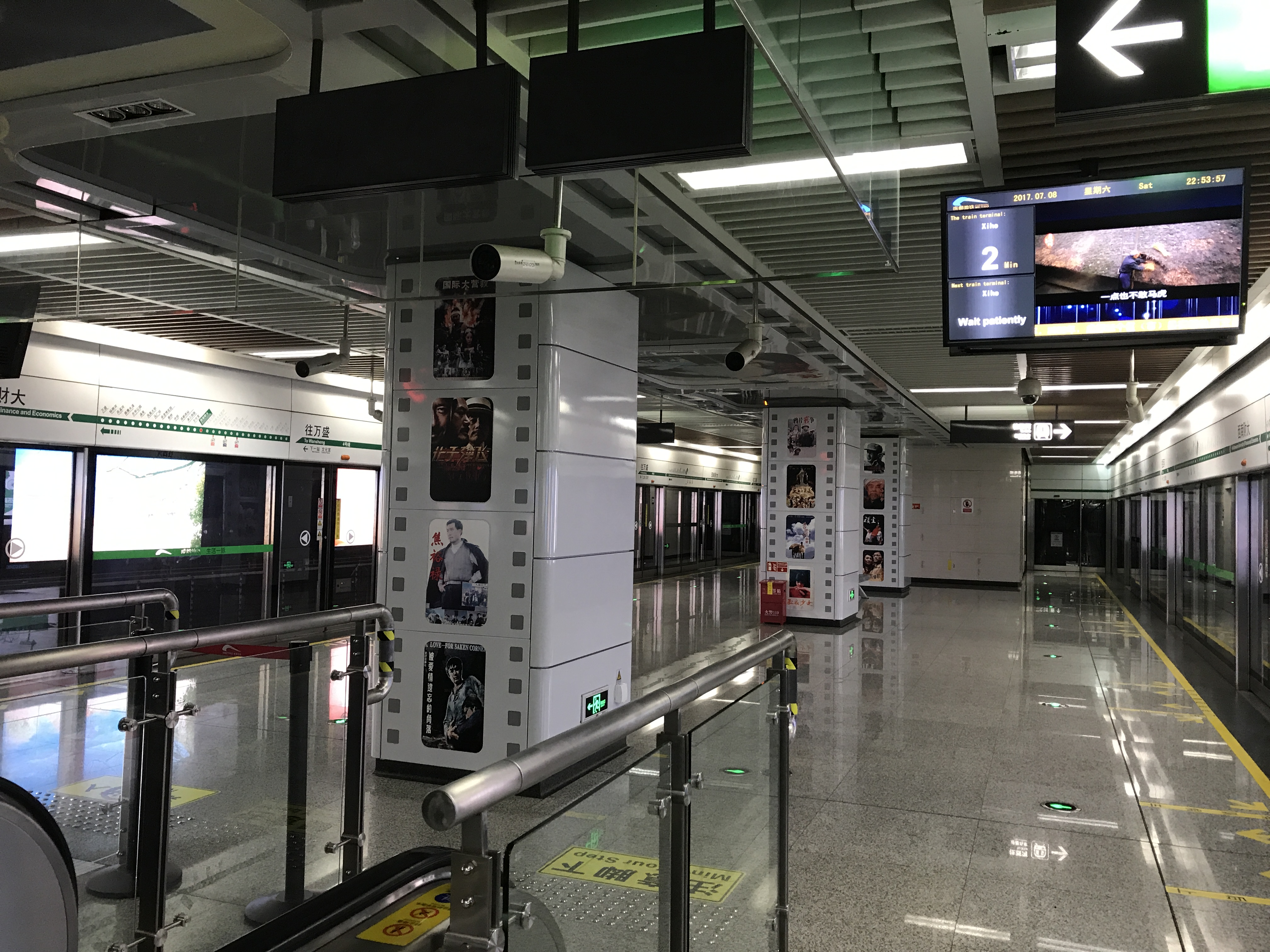 Platform of Southwestern University of Finance and Economics Station, Chengdu Metro